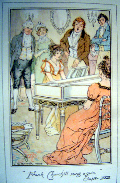 Colour illustration of a 1909 edition of Emma (Jane Austen's novel), by C. E. Brock (died 1938